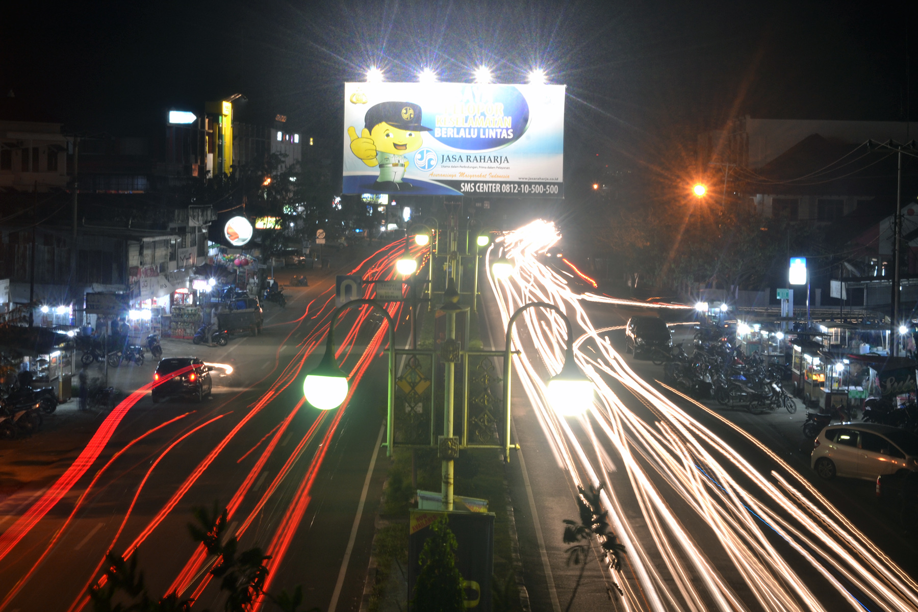 Photograph of Banda Aceh's highway in the night.